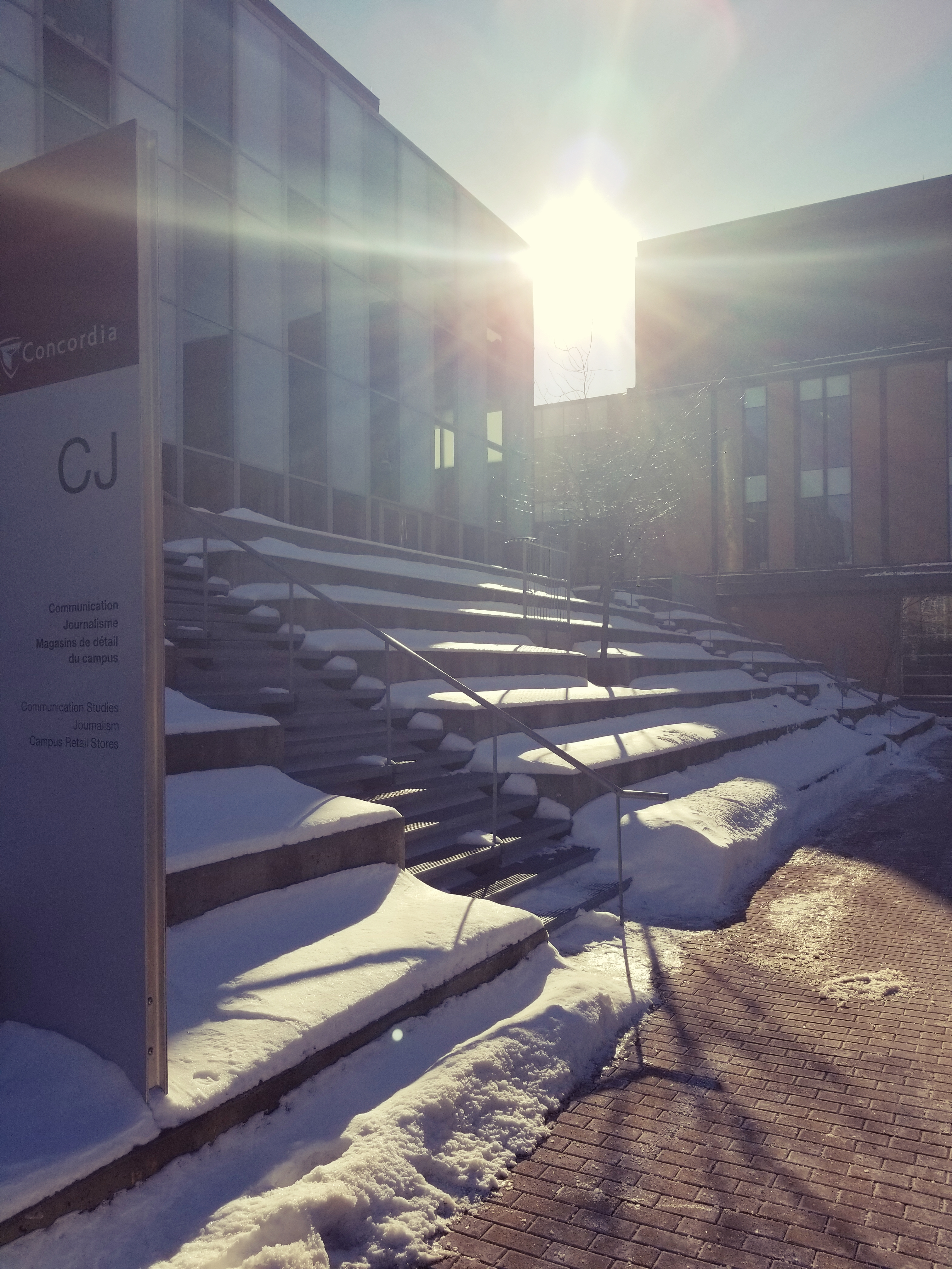 The CJ building houses the Communication Studies Department at Concordia University, Montreal, Quebec, Canada.